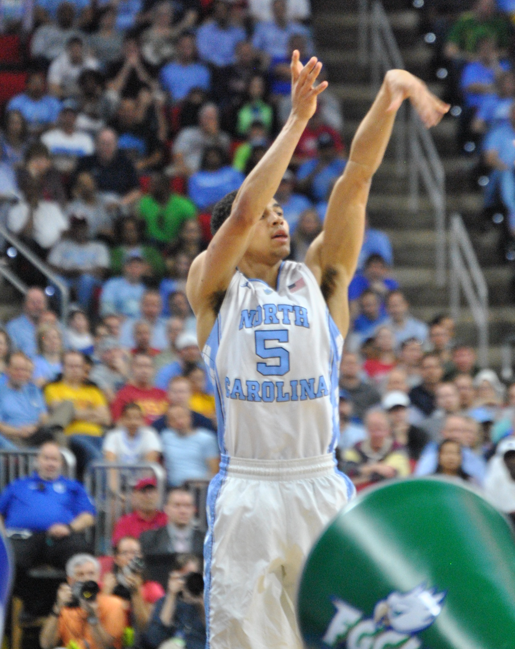 Marcus Paige lets one fly against the Eagles in Raleigh